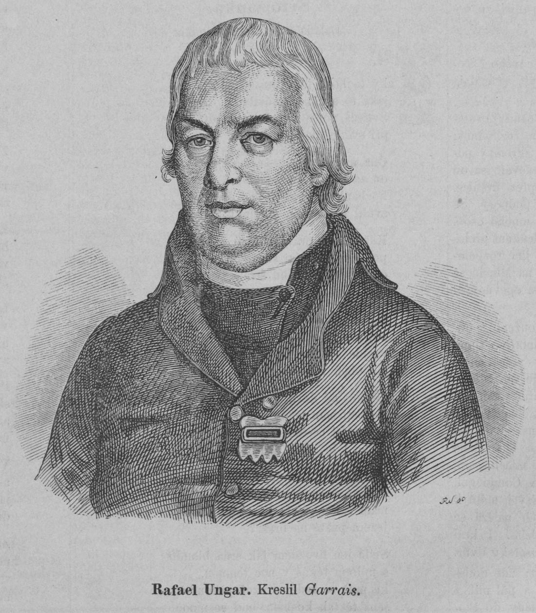 Portrait of Karel Rafael Ungar (1743 - 1807), Czech priest, librarian and rector of Charles University